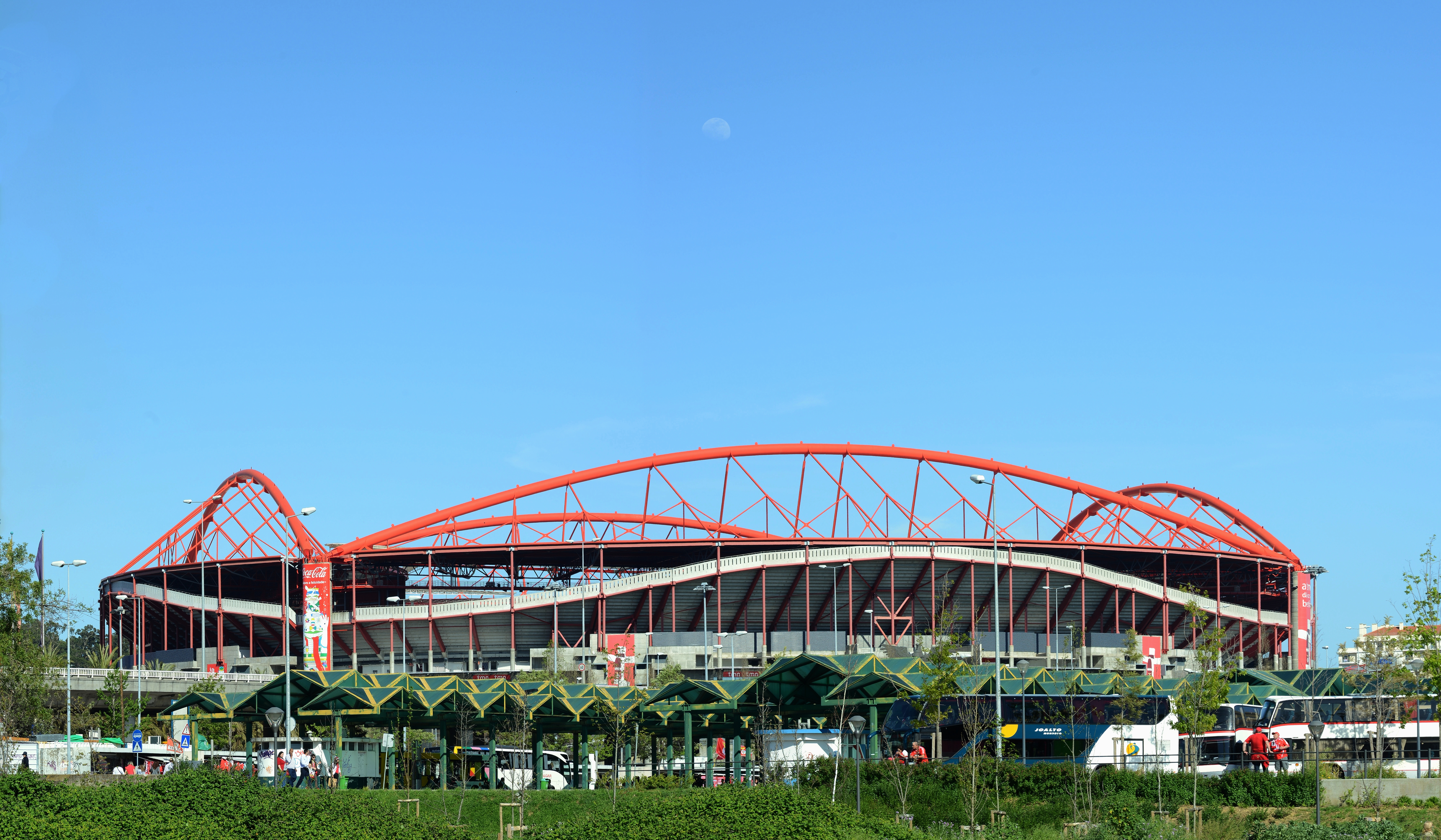 The Stadium of Benfica (Estádio da Luz), Lisbon